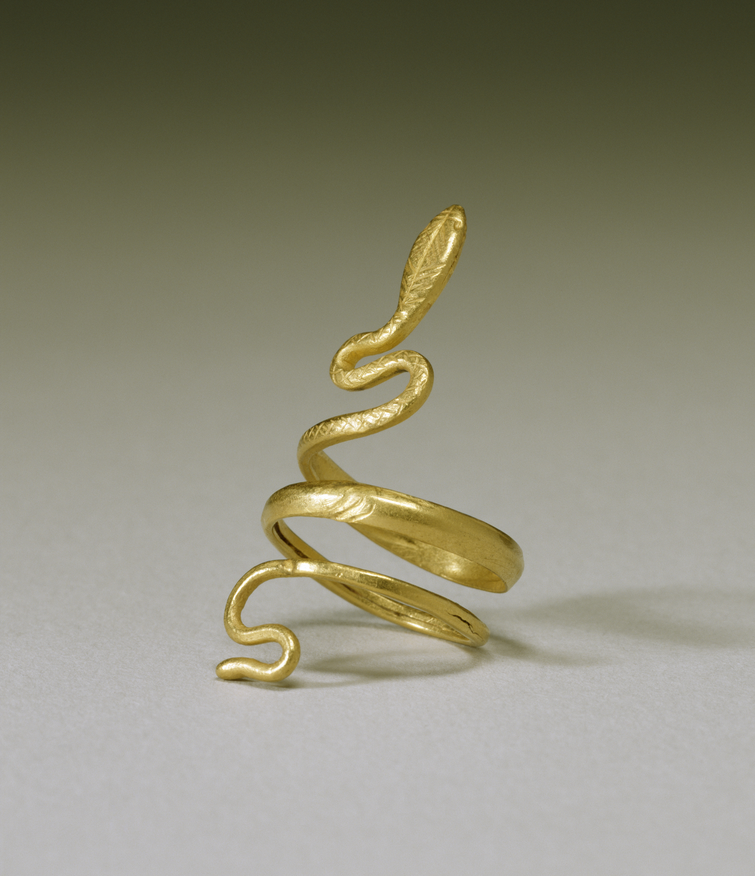 Solid-gold bracelets and rings in the form of snakes were among the most popular objects in Greek and Roman jewelry. The snakes symbolize fertility and were intended to ward off evil.